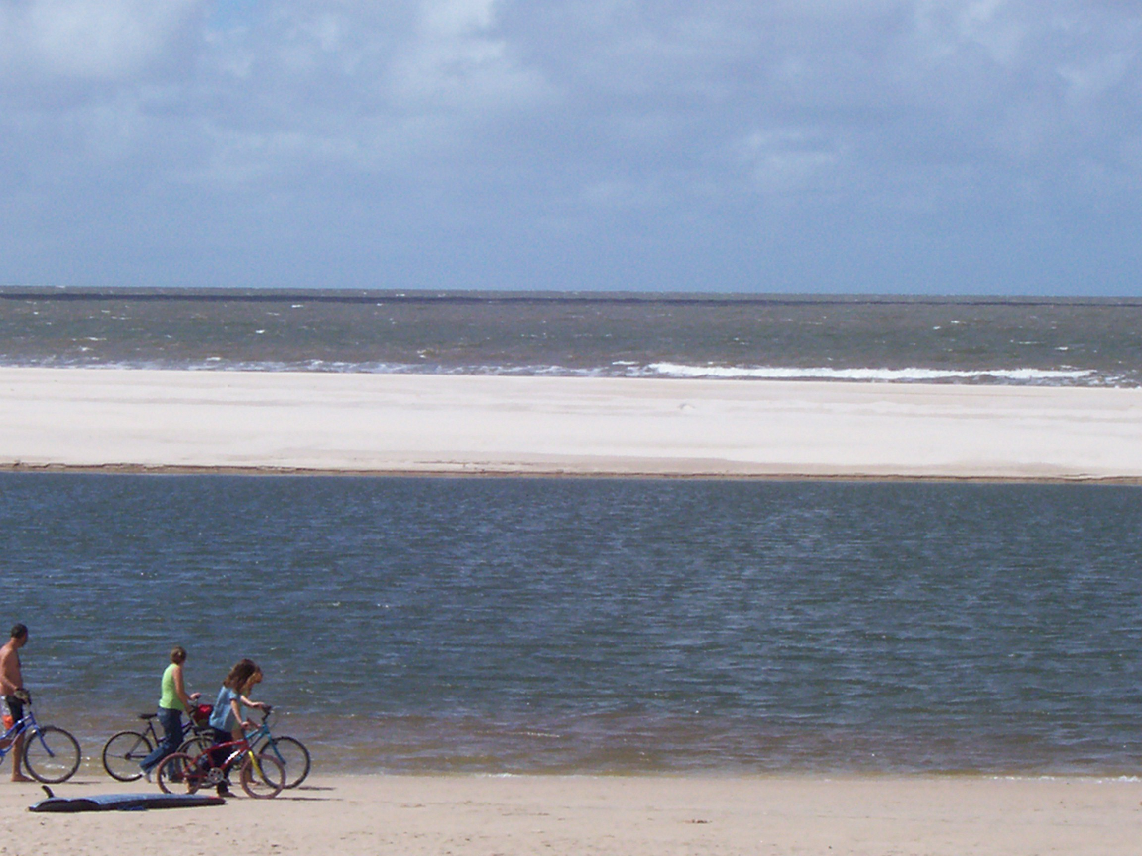 The mouth of stream Arroyo Solís Chico in Río de la Plata, at Parque del Plata, Canelones, Uruguay.